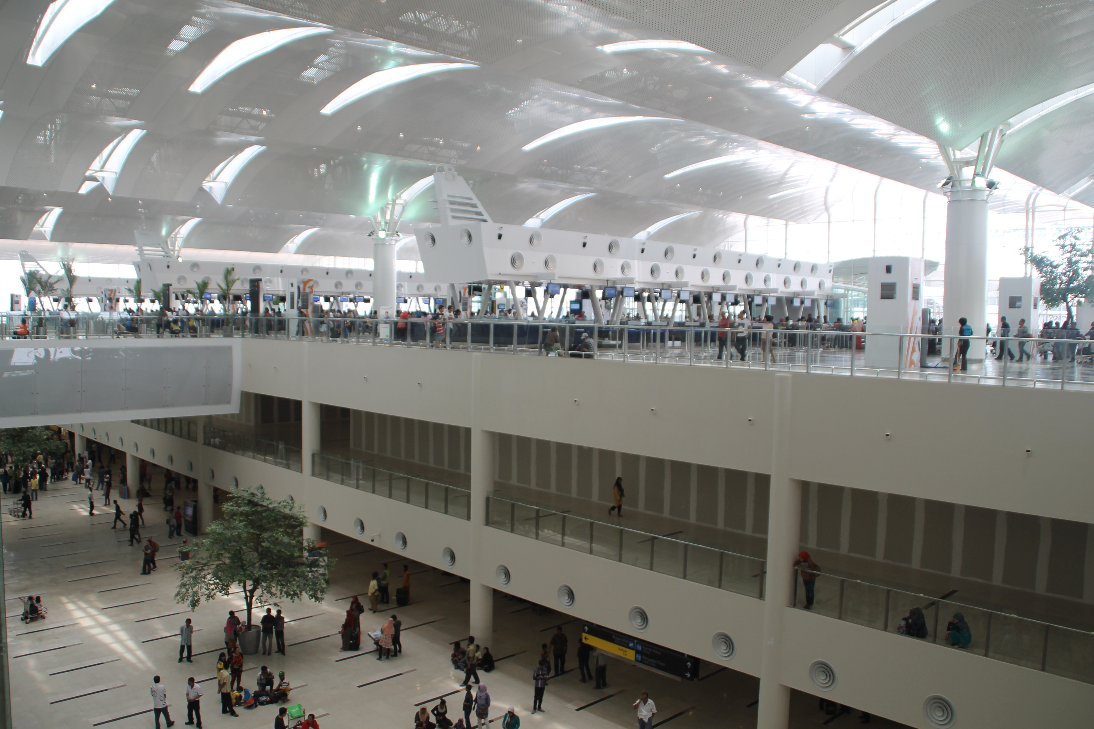 Departure hall of the Kuala Namu airport in Medan, Indonesia